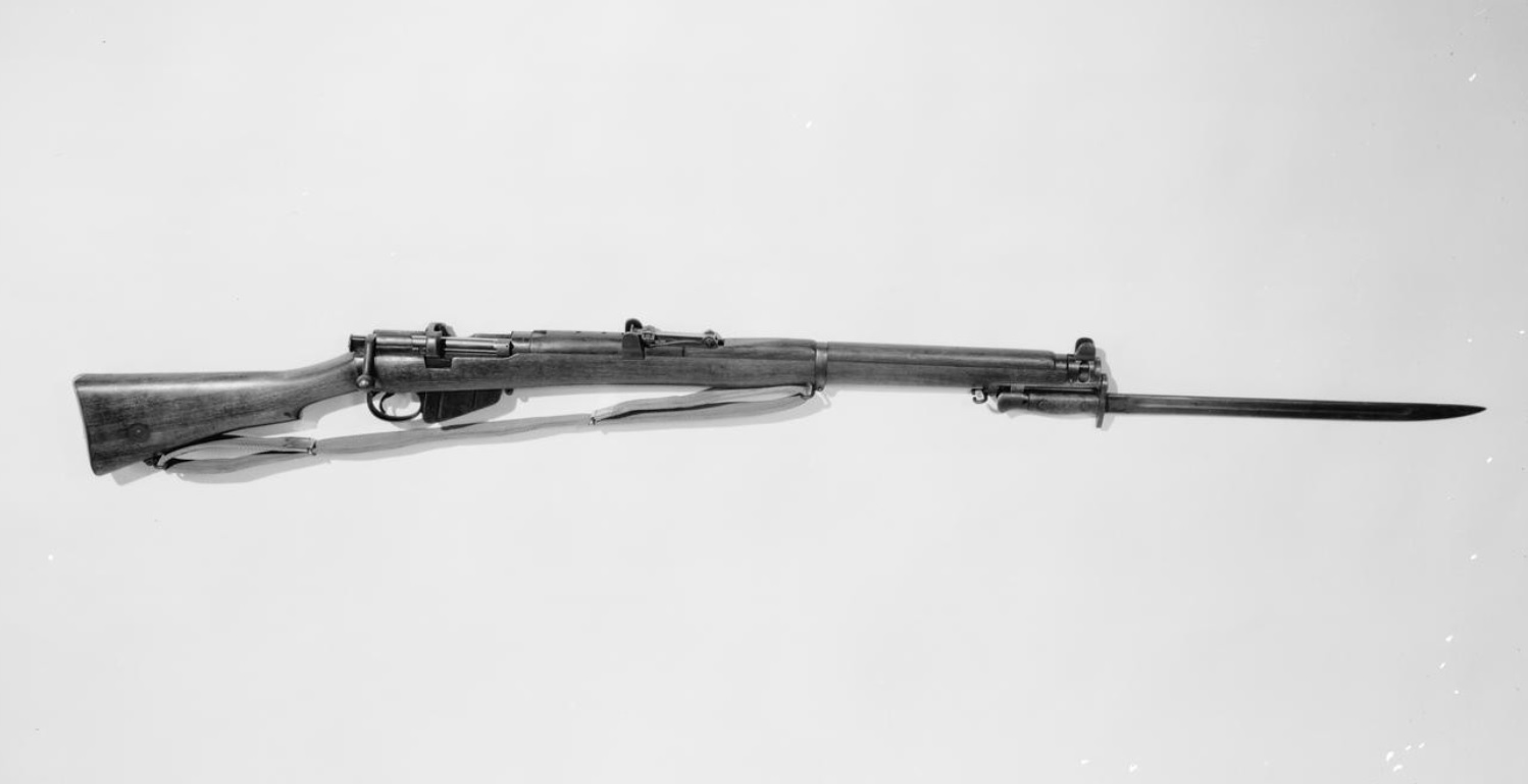 Short Magazine Lee-Enfield with Pattern 1907 sword bayonet fitted